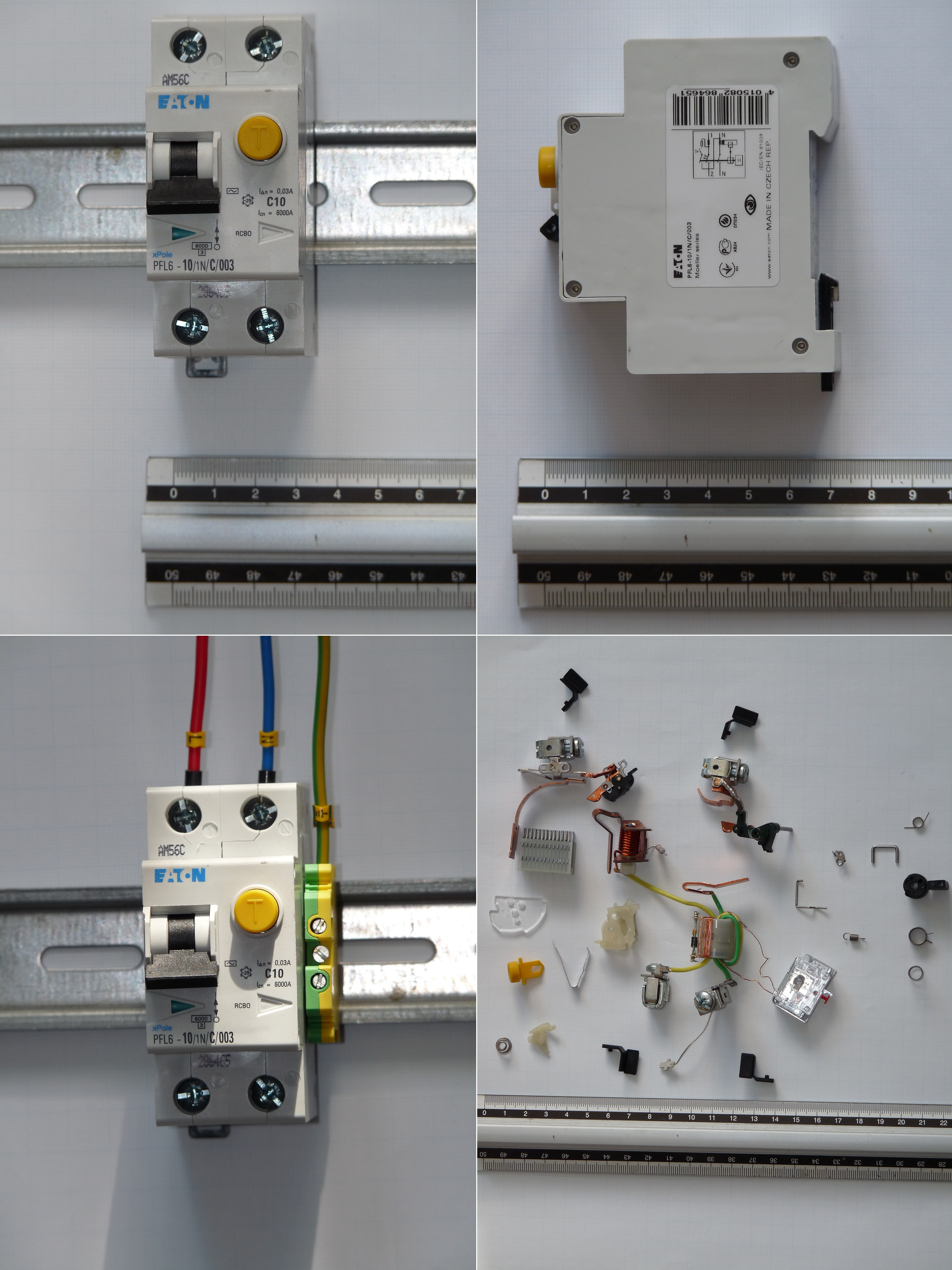 EATON 2-pole RCBO is explained. I(n)=10A, with "C" characteristicks ΔI=30mA